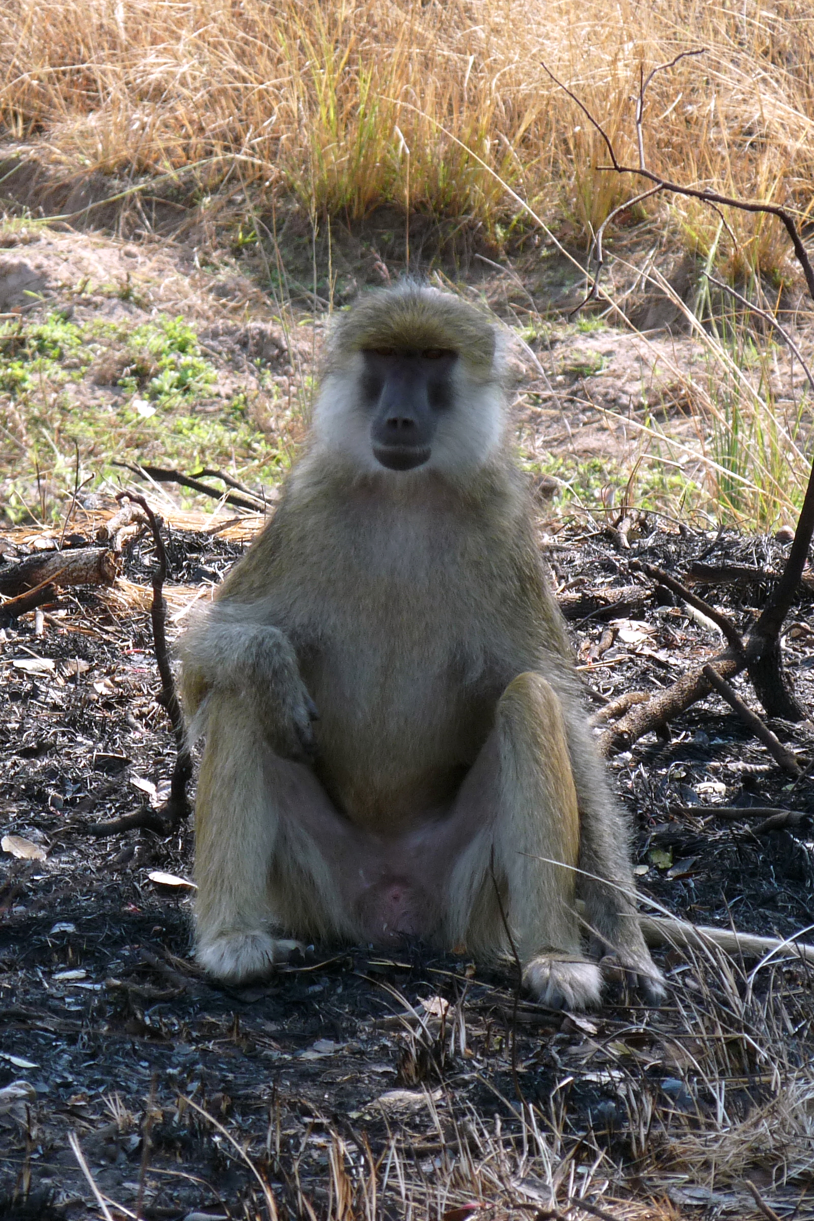 Male Kinda baboon at Chunga, Kafue National Park, Zambia